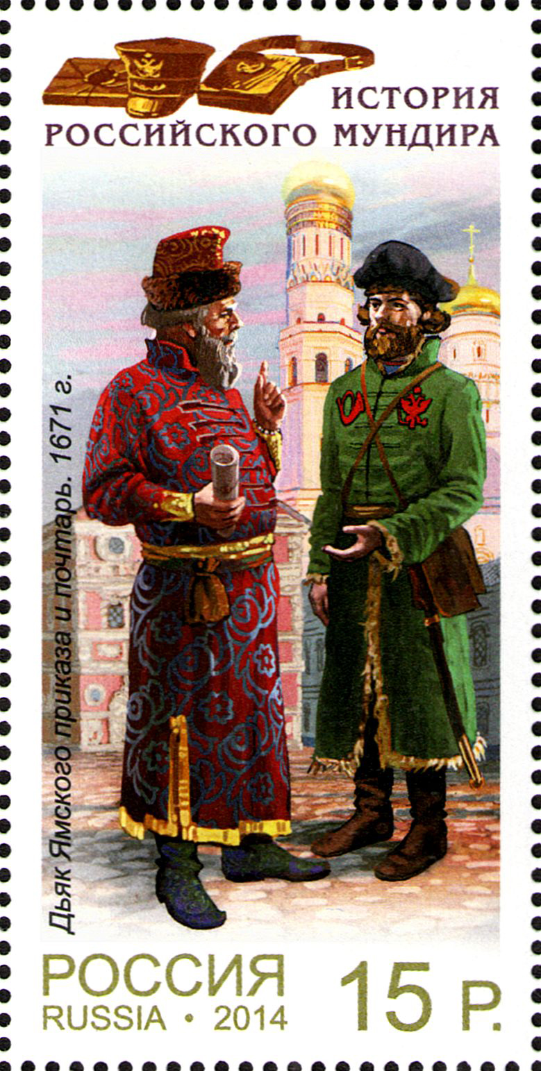 The History of the Russian Uniform (the ongoing series, issue II). The uniform of the communications service. A dyak of the Yam Prikaz (on the left) and a courier. 1671. The stamp of Russia, 15.00 Rubles, 1 September 2014, PTC Marka Catalogue No 1870. Coated paper. Offset printing. Perforation: comb 12×12. Size of the stamp: 32.5×65 mm. Print run: 336,000.